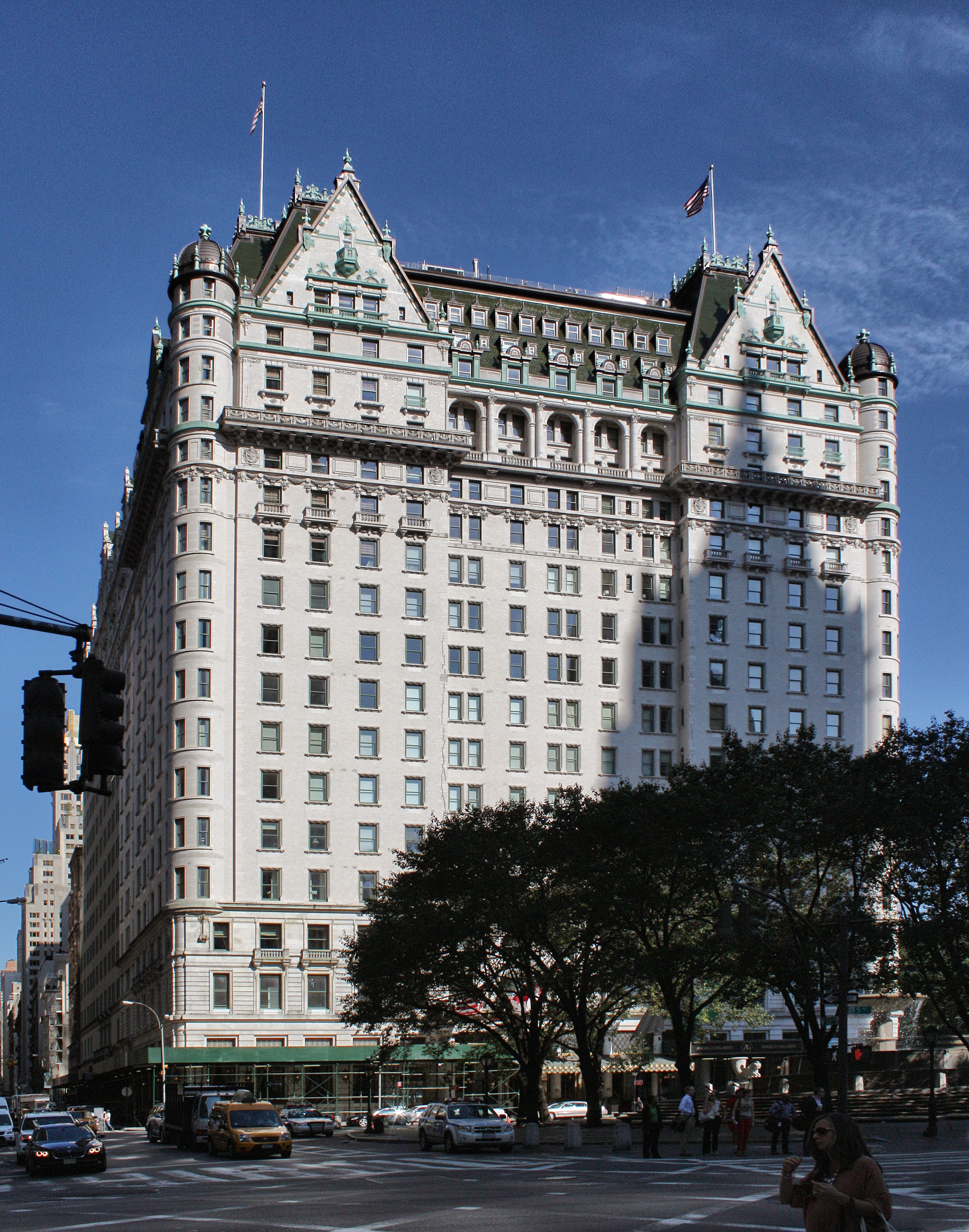 Plaza Hotel in Manhattan, New York City.